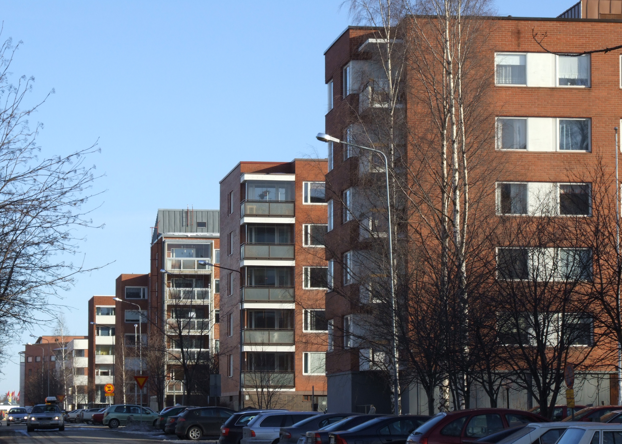 A typical view from a street in Heinäpää Oulu, Finland